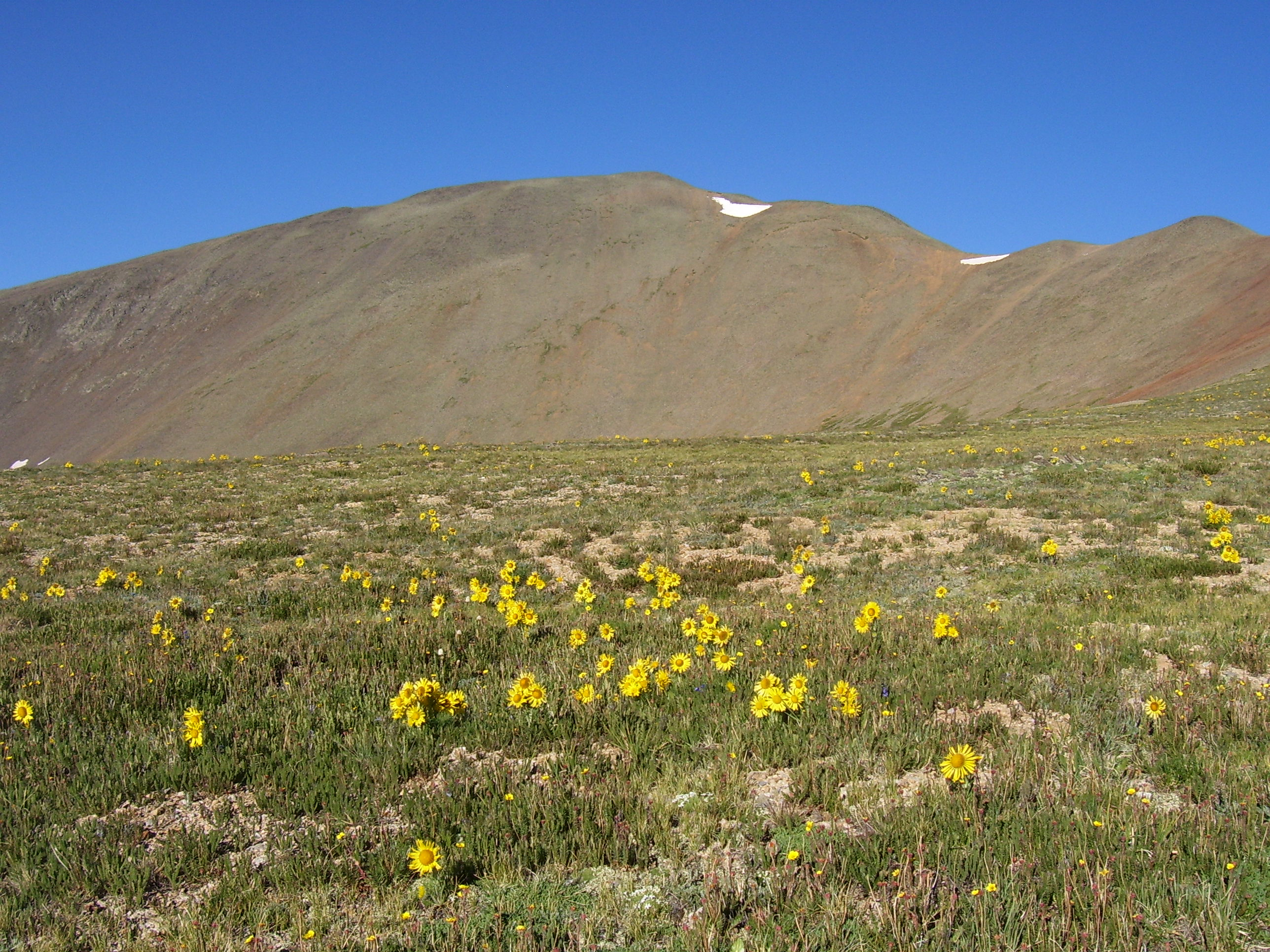 San Luis Peak as viewed from the northeast. At an elevation of 14,022-foot (4273.8 m), this is the highest summit in the La Garita Wilderness. The yellow flowers In the foreground are those of old man of the mountain (Hymenoxys grandifolia).